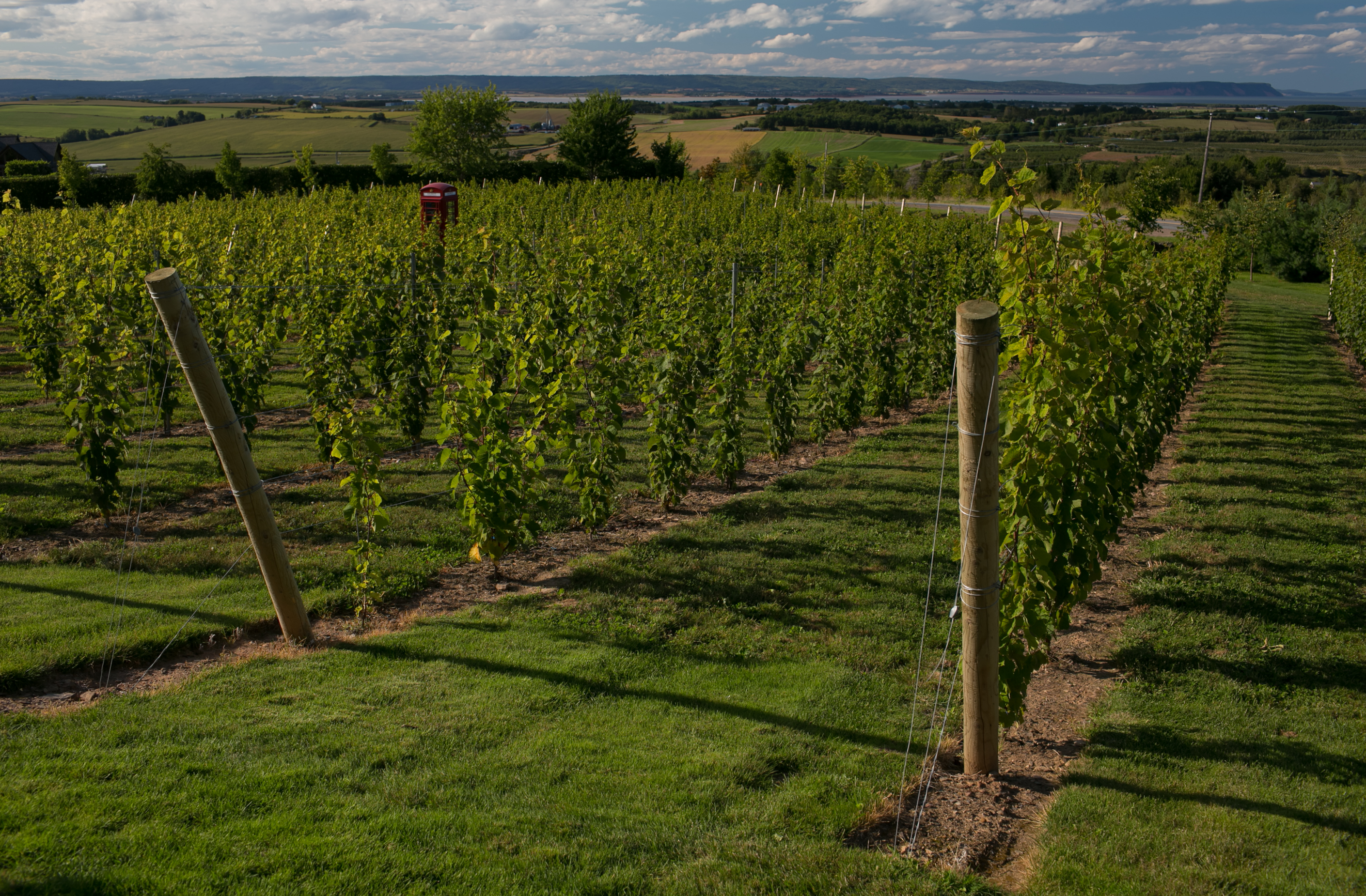 Vineyards in the Canadian wine region of Nova Scotia